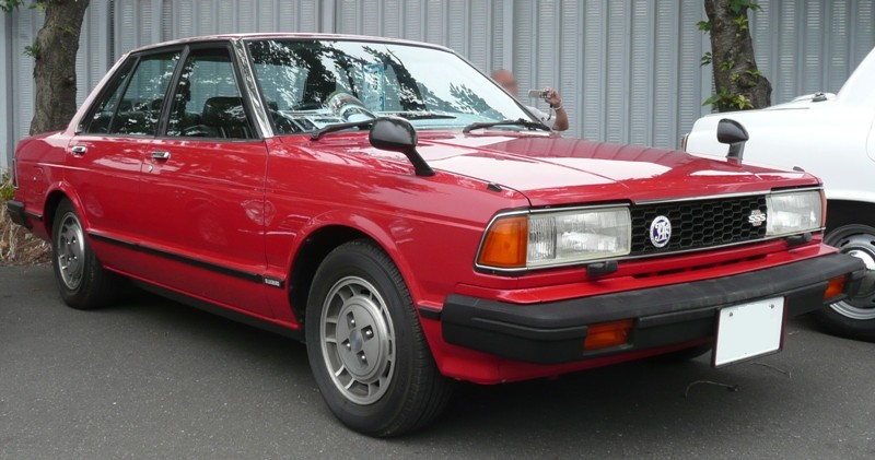 Nissan Bluebird SSS.